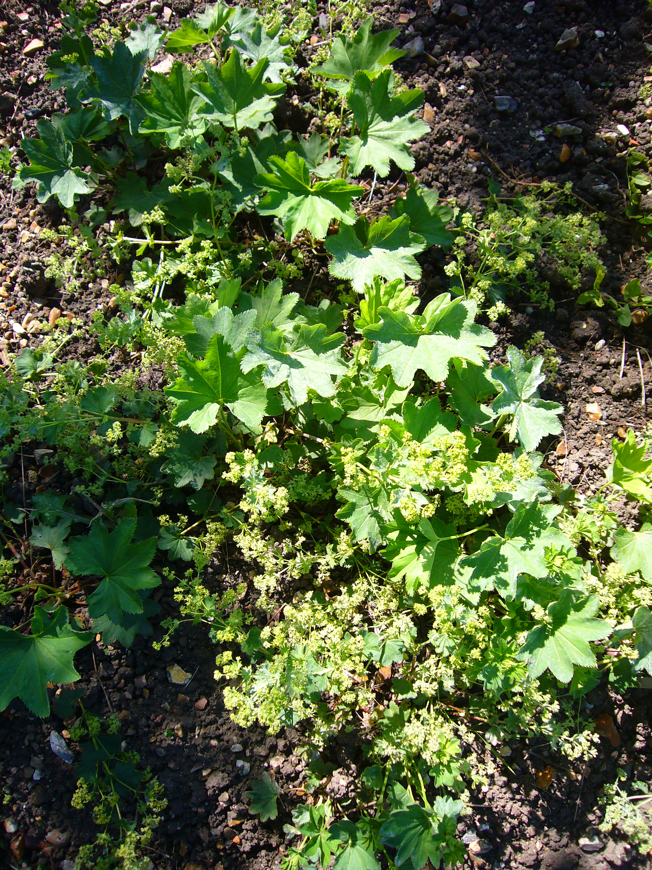 Alchemilla glabra "Smooth Lady's mantle" (plant) (photo taken in the Cambridge University Botanic Garden)